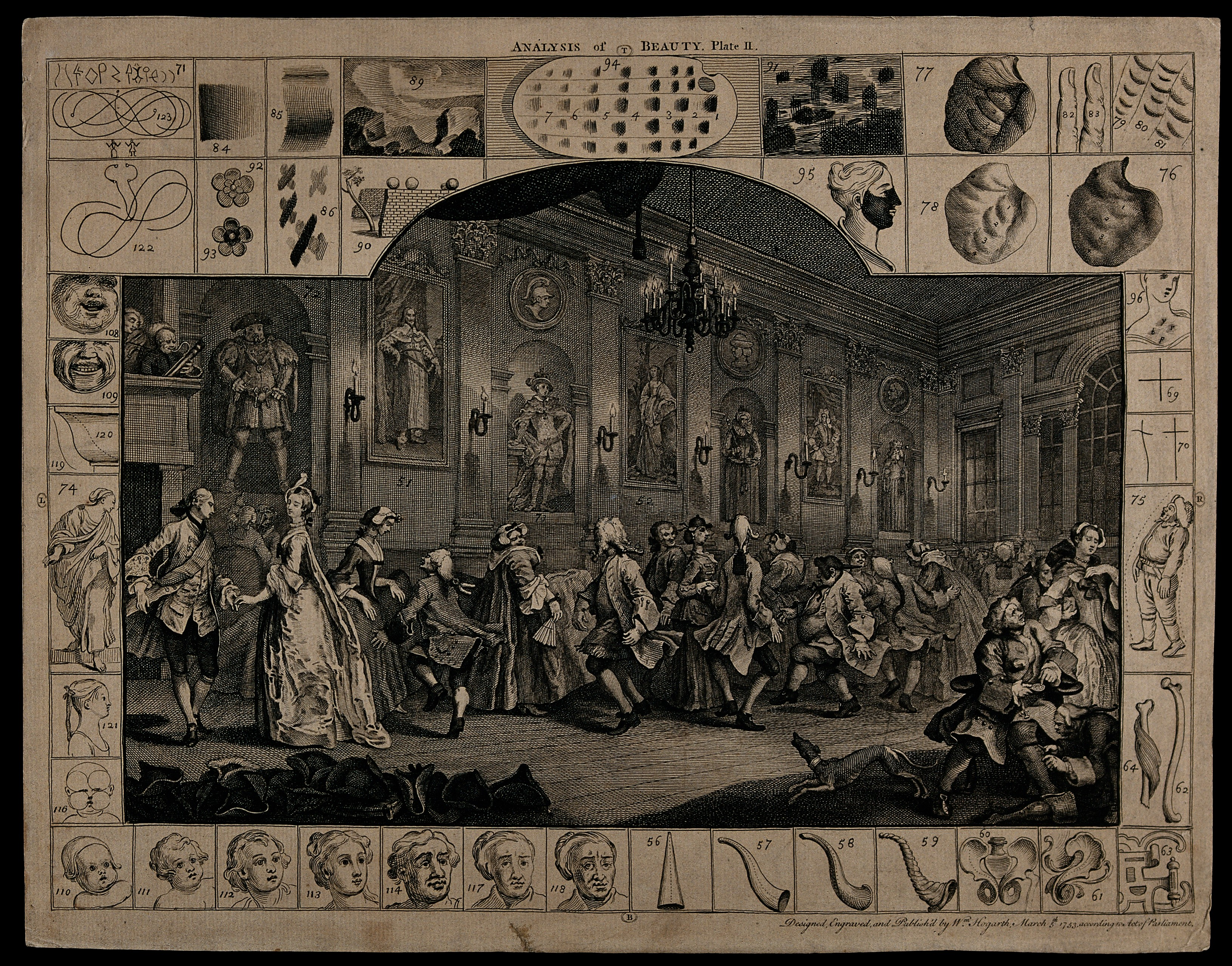 A country dance in a long hall; the elegance of the couple on the left contrasts with the ridiculous poses of the more rustic figures beyond representing "unidealized" humanity; straight, angular and round shapes. Iconographic Collections Keywords: William Hogarth